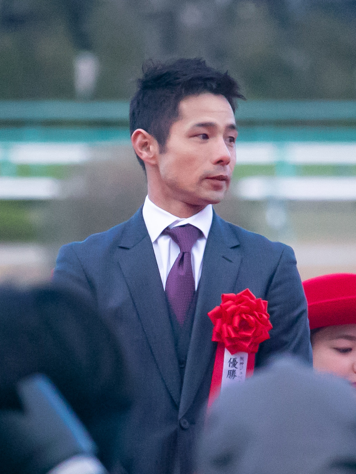 Mitsumasa Nakautida, Horse trainers of JRA.